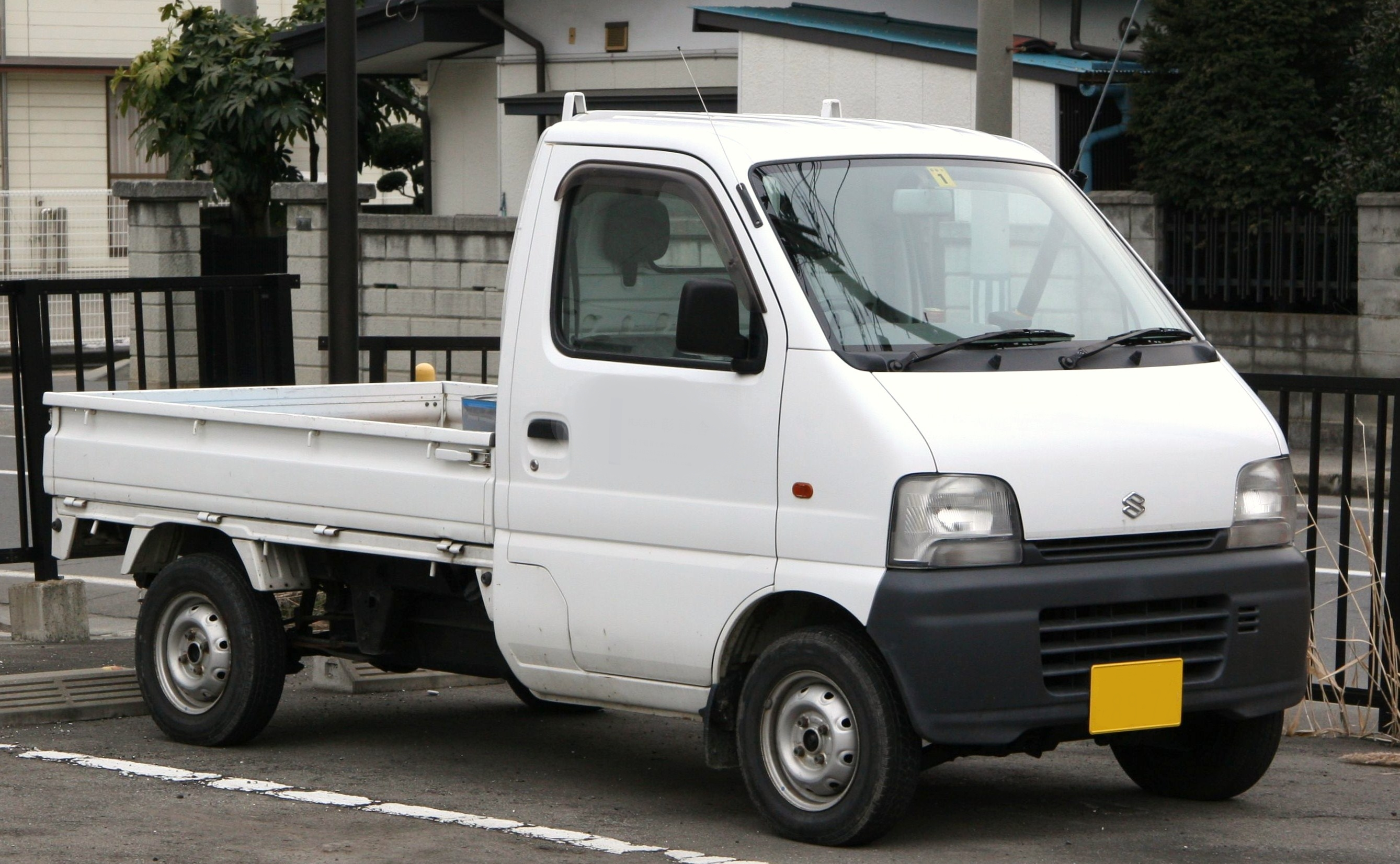 Suzuki Carry